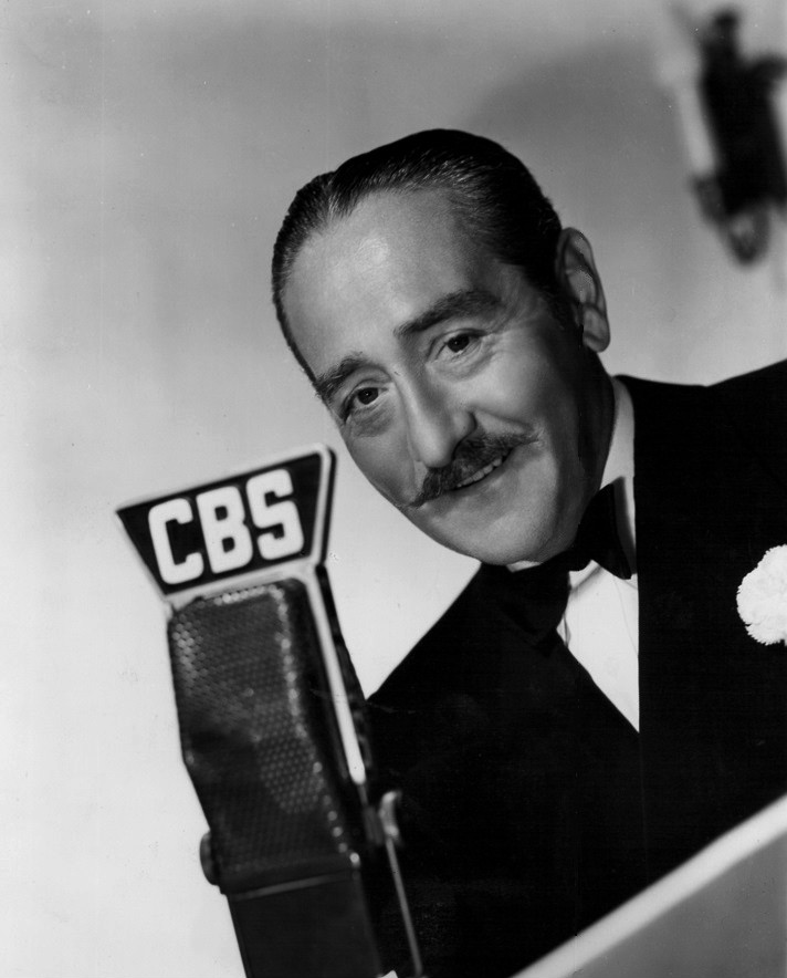 Photo of actor Aolphe Menjou in 1938.